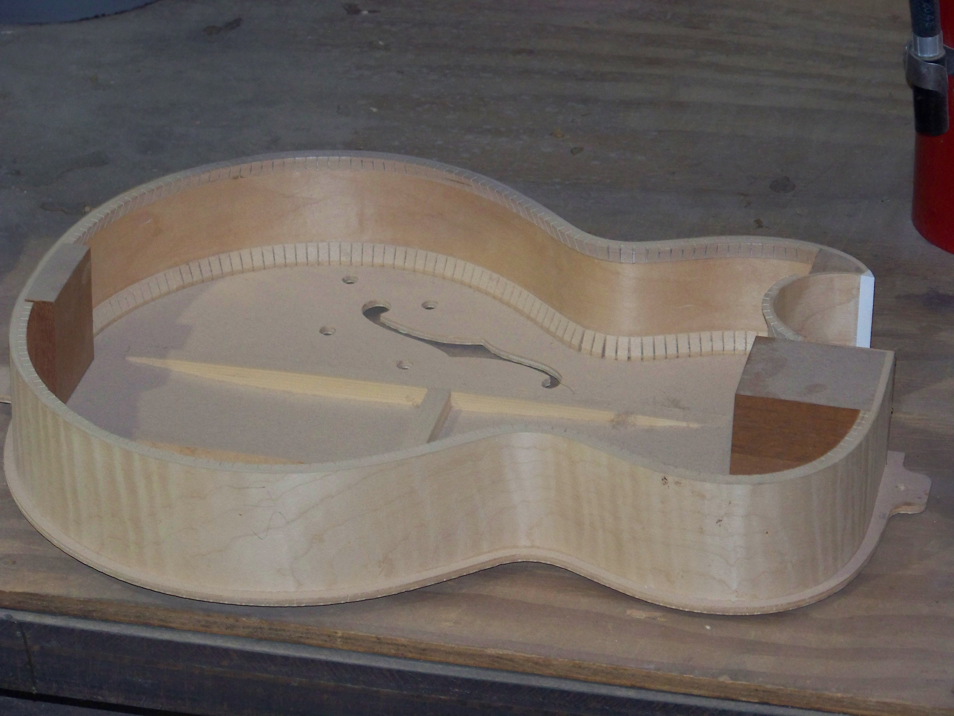 GMFT3-3 making hollow body